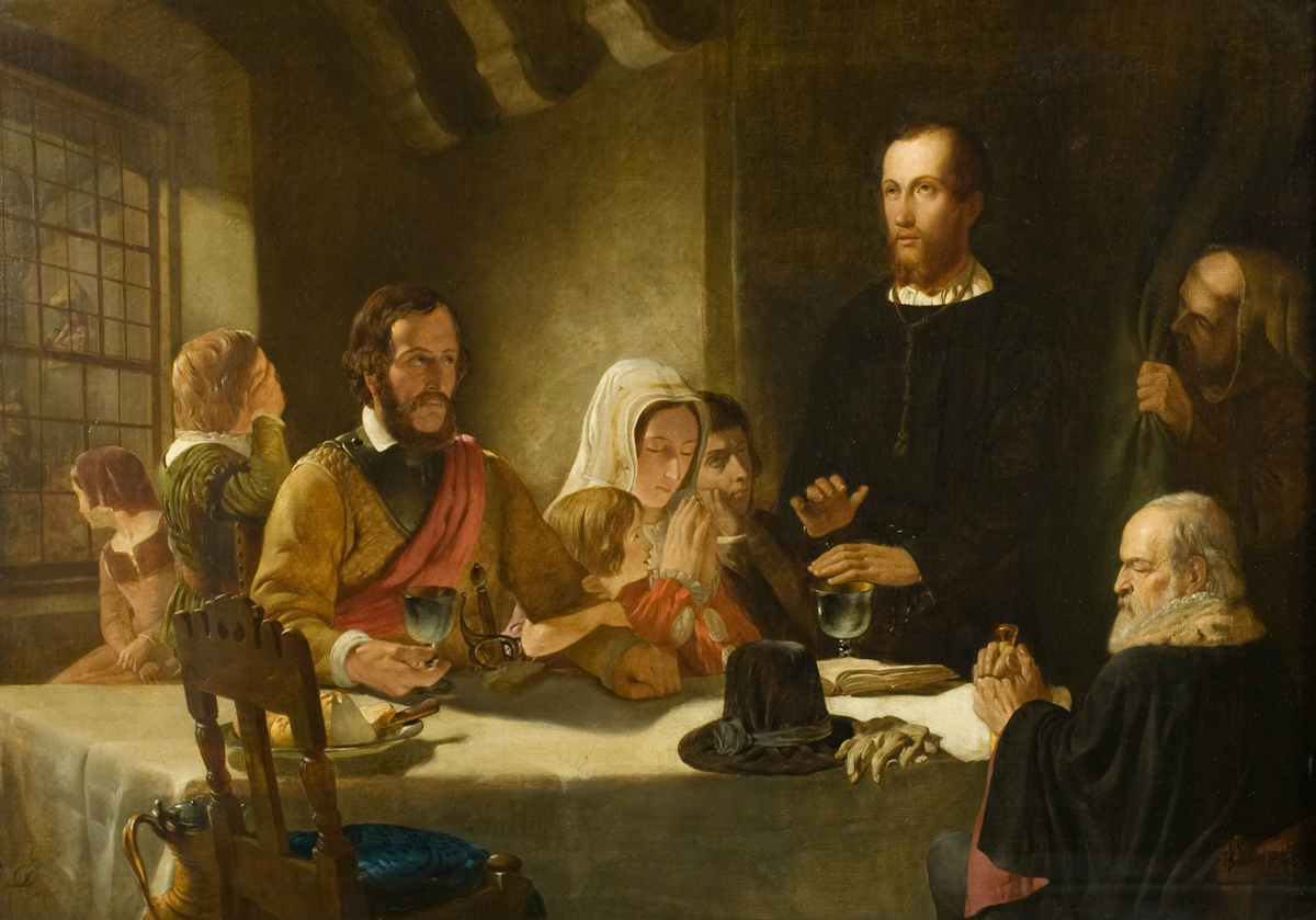 Drummond, James; George Wishart on His Way to Execution Administering the Sacrament for the First Time in Scotland after Protestant Reform; Dundee Art Galleries and Museums Collection (Dundee City Council)